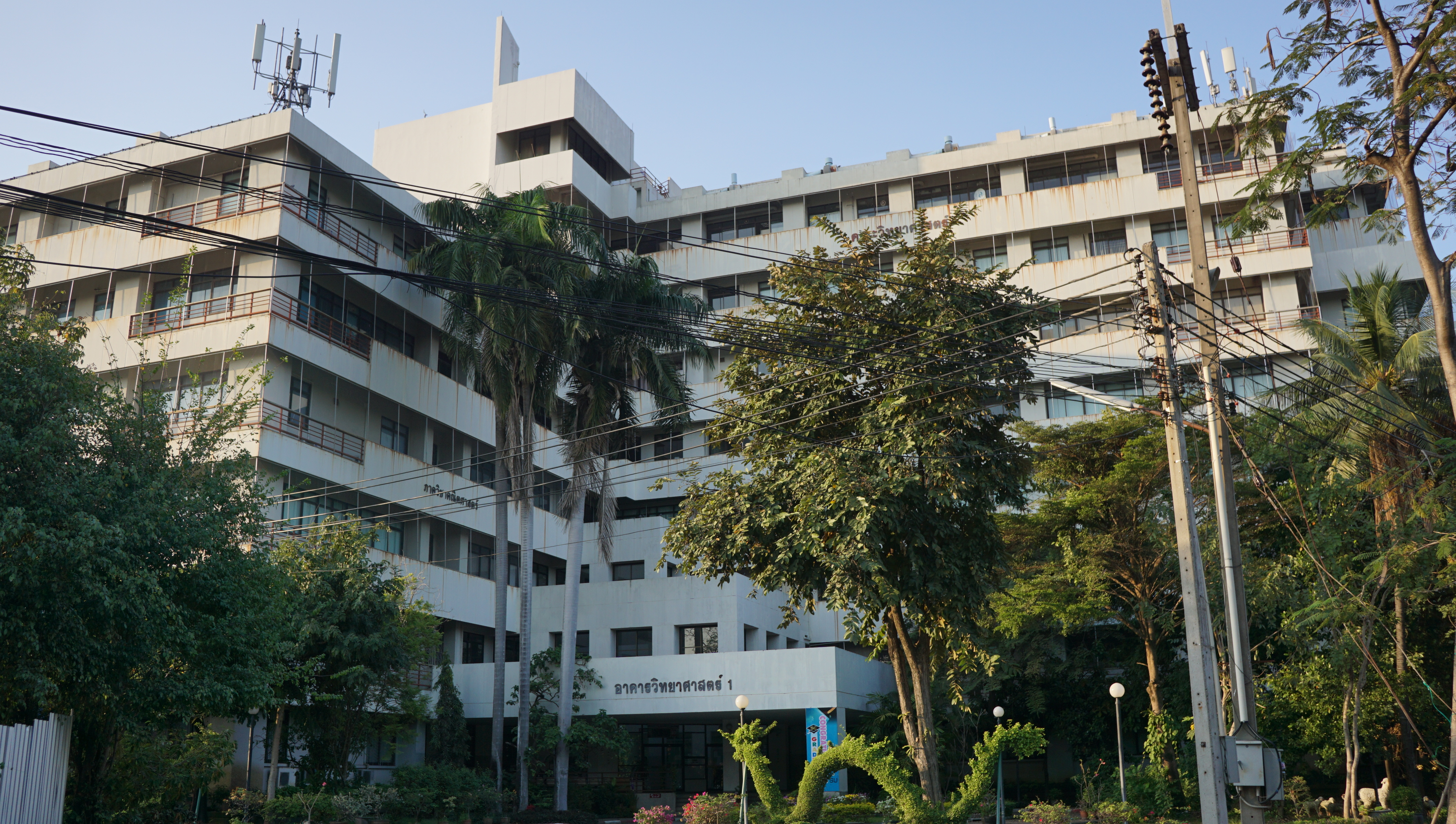 Faculty of Science, Silpakorn University building in Sanam Chandra Palace Campus (2017).